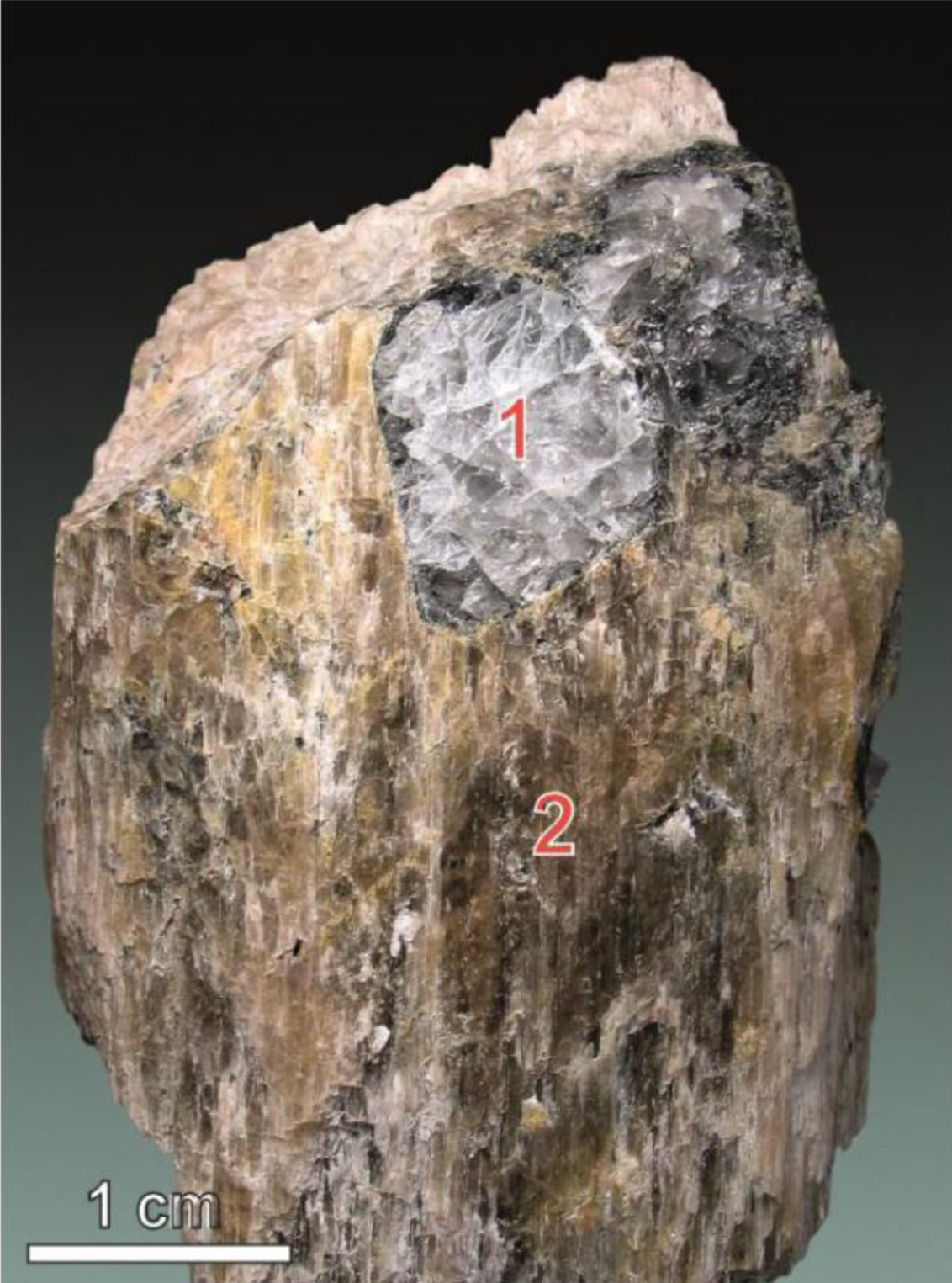 Figure 8. Chkalovite crystals (1): (a) in manaksite (2), from the “Palitra” pegmatite, Mt Kedykvyrpakhk, Lovozero; (b) in villiaumite (3), from a sodalite-microcline-aegirine vein in urtite, Mt Koashva, Khibiny.